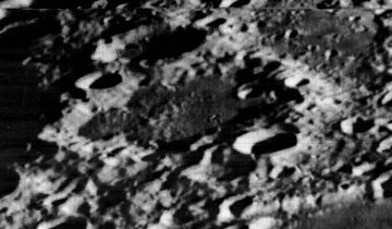 Oblique view of Cajori crater, on the far side of the moon, facing roughly south.